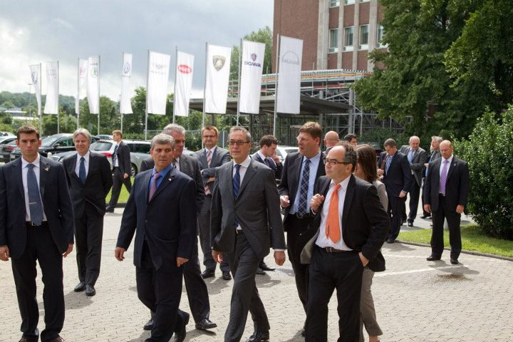 Meeting of Shalom Simhon.The minister, with German officials, July 2012